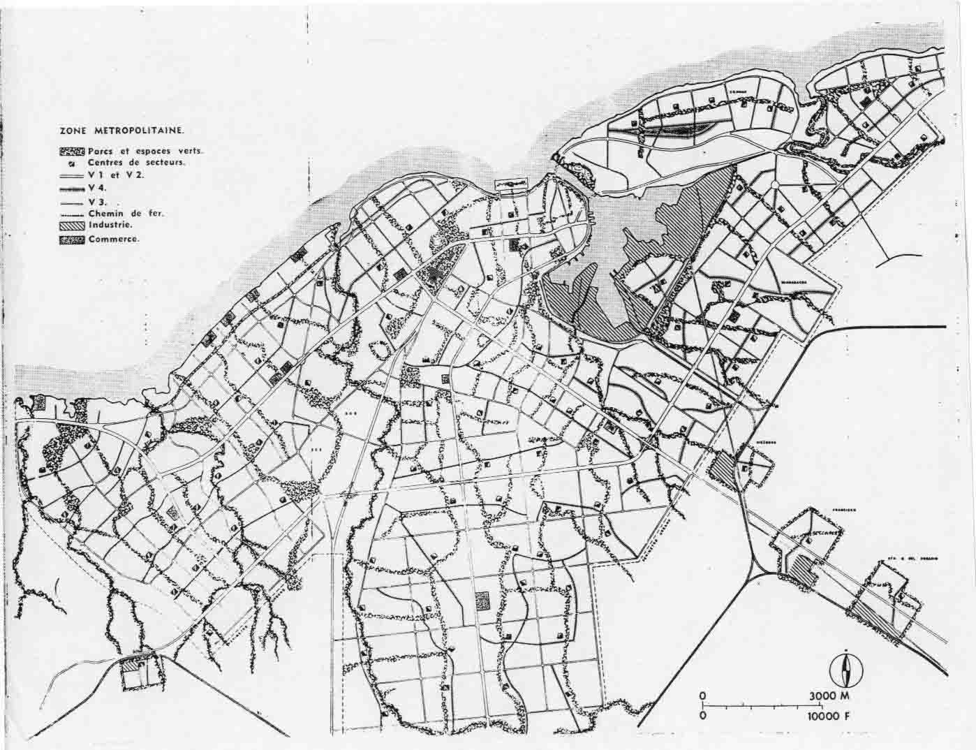 Havana Plan Piloto. Road map and green structures of the Master Plan of José Luis Sert, 1956.